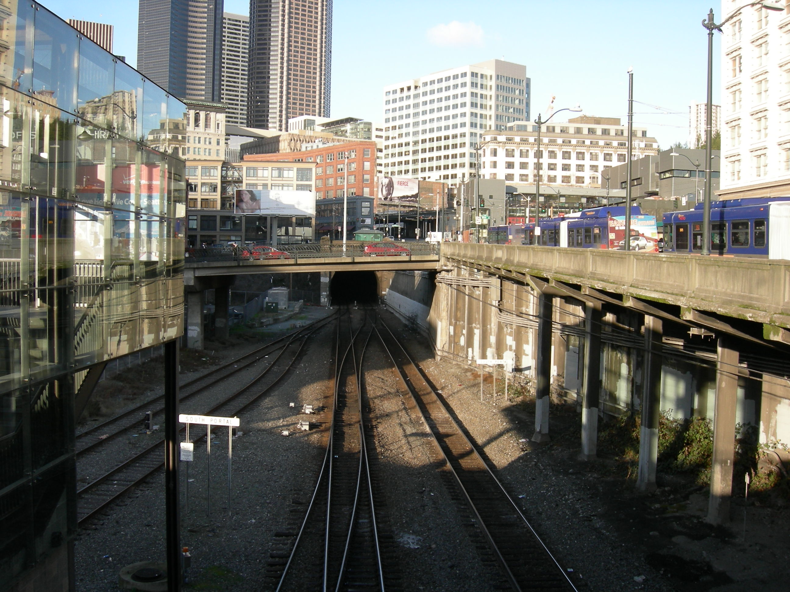 South portal of the railway tunnel under downtown Seattle, in the Pioneer Square neighborhood, Seattle, Washington.